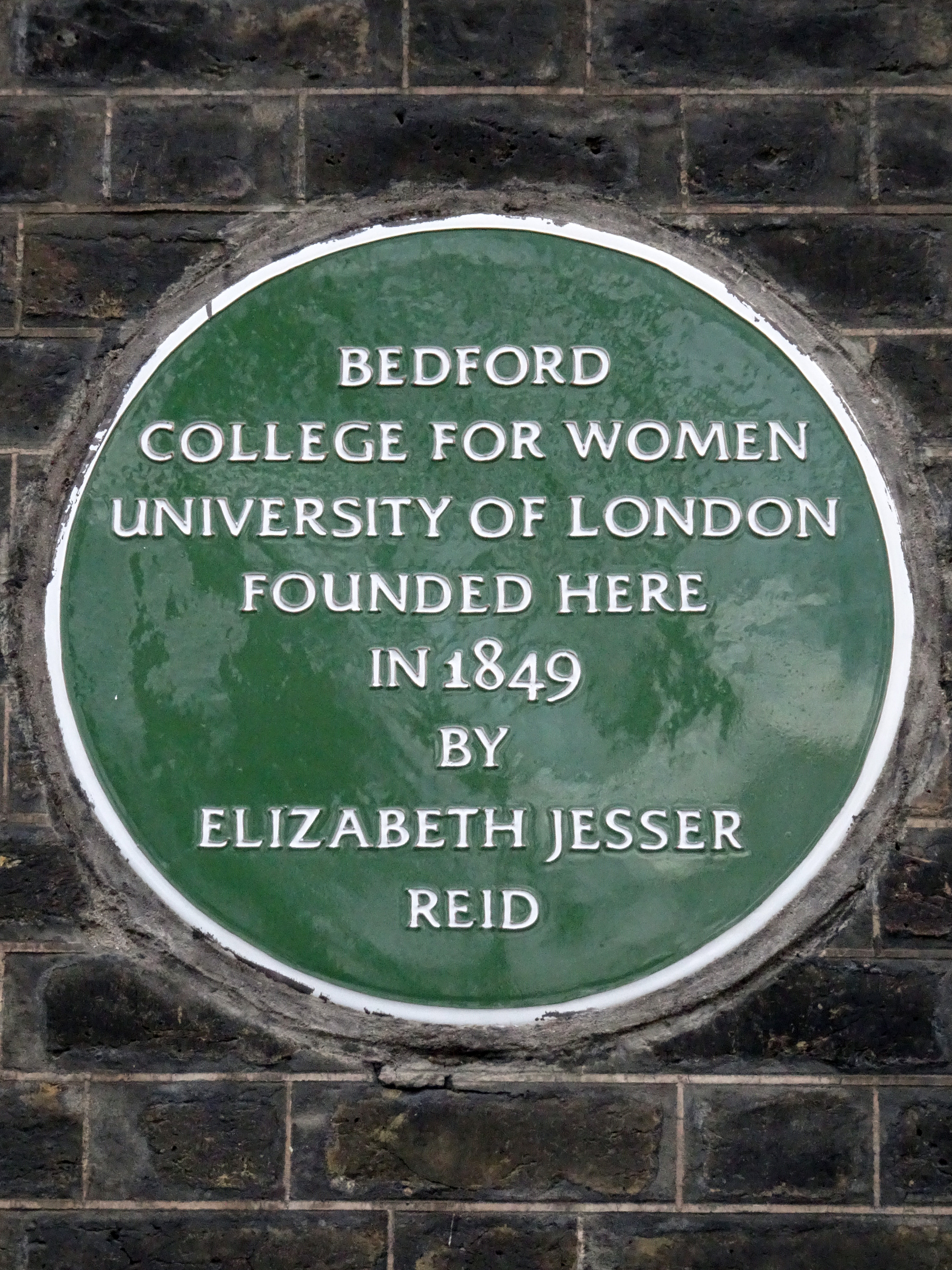 Green plaque at 48 Bedford Square, Fitzrovia London, WC1B 4DR